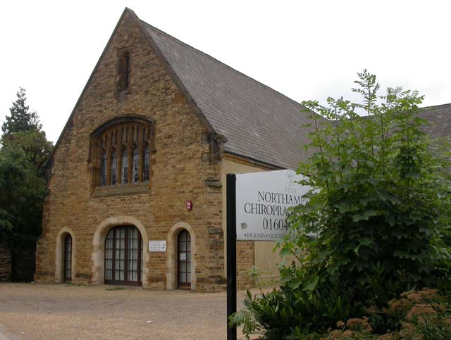 Chiropractic Clinic, Barrack Road, Northampton: a former church or chapel.